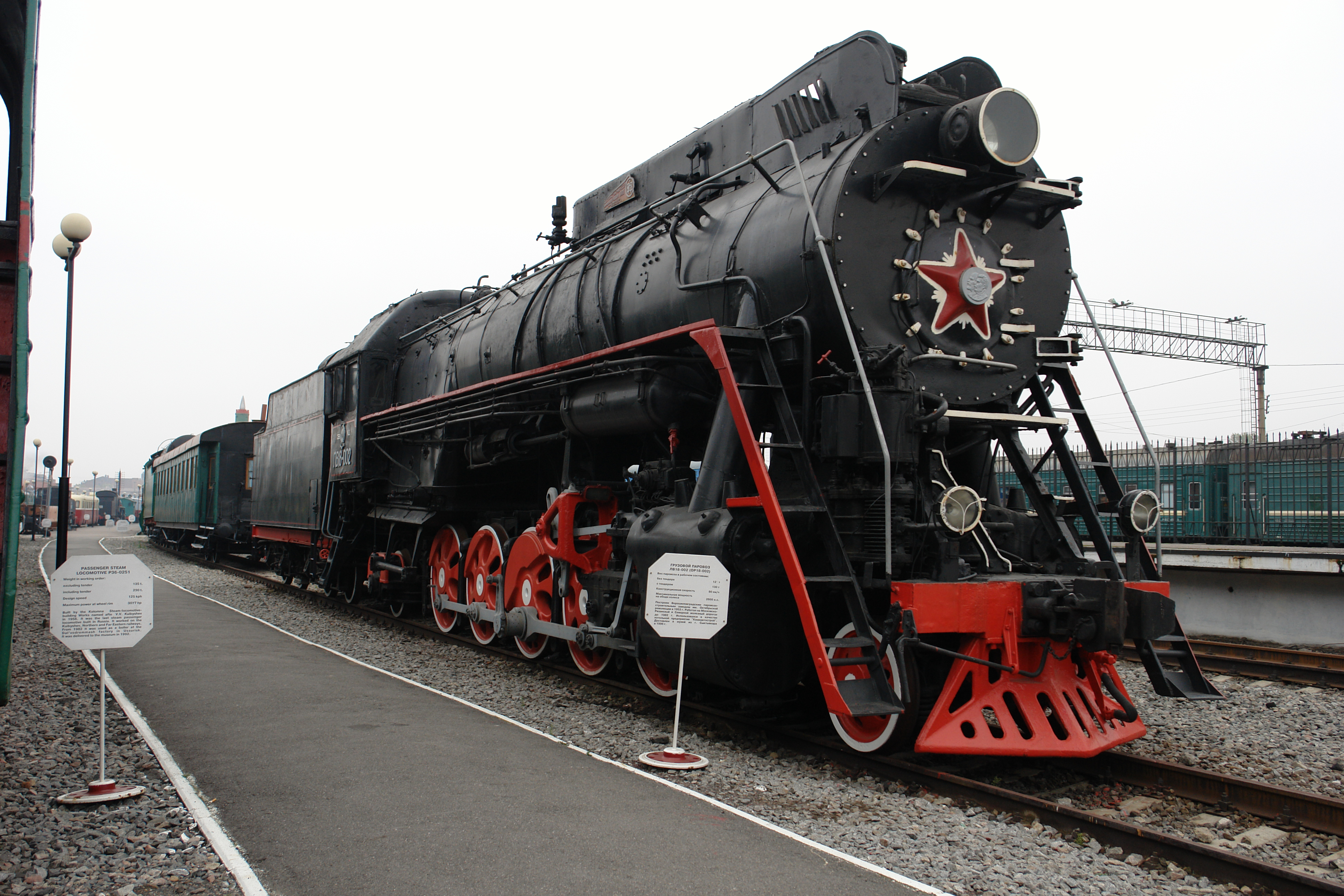 Cargo locomotive OF LVY8-002 (ORY8-002) Weight steam in working order:without tender12 tonsstenderom130 tonnesKonstruktsionnaya speed80 km / h.maximum power at the rim of the wheel2600 PS Built in the Voroshilovgradskim Parovozostroitelnym factory. The October Revolution of 1953. Served at Moskovsko-Ryazanskoy and Northern Iron roads until 1982. Ispolzovalsya as boiler enterprise "Komiavtostroy." Delivered to the museum in the city of Syktyvkar, in 1996. Railway Technology Museum, St. Petersburg